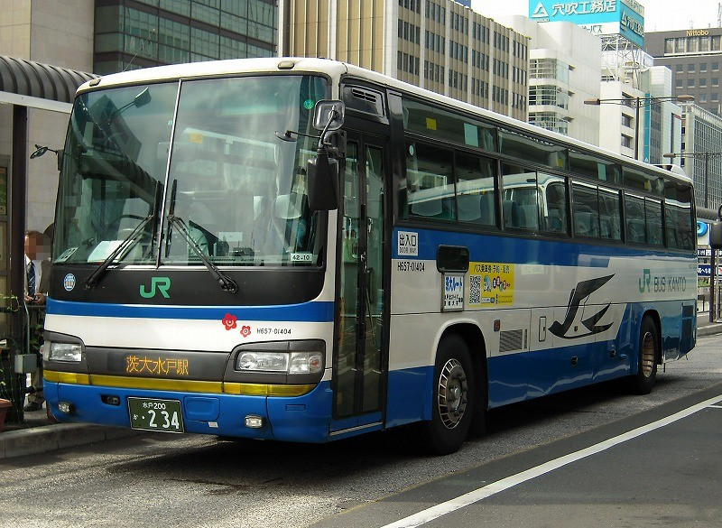 JR bus Kanto Hino S'ELEGA RHighwaybus "Mito-gou"(Tokyo-Mito,Ibaraki)